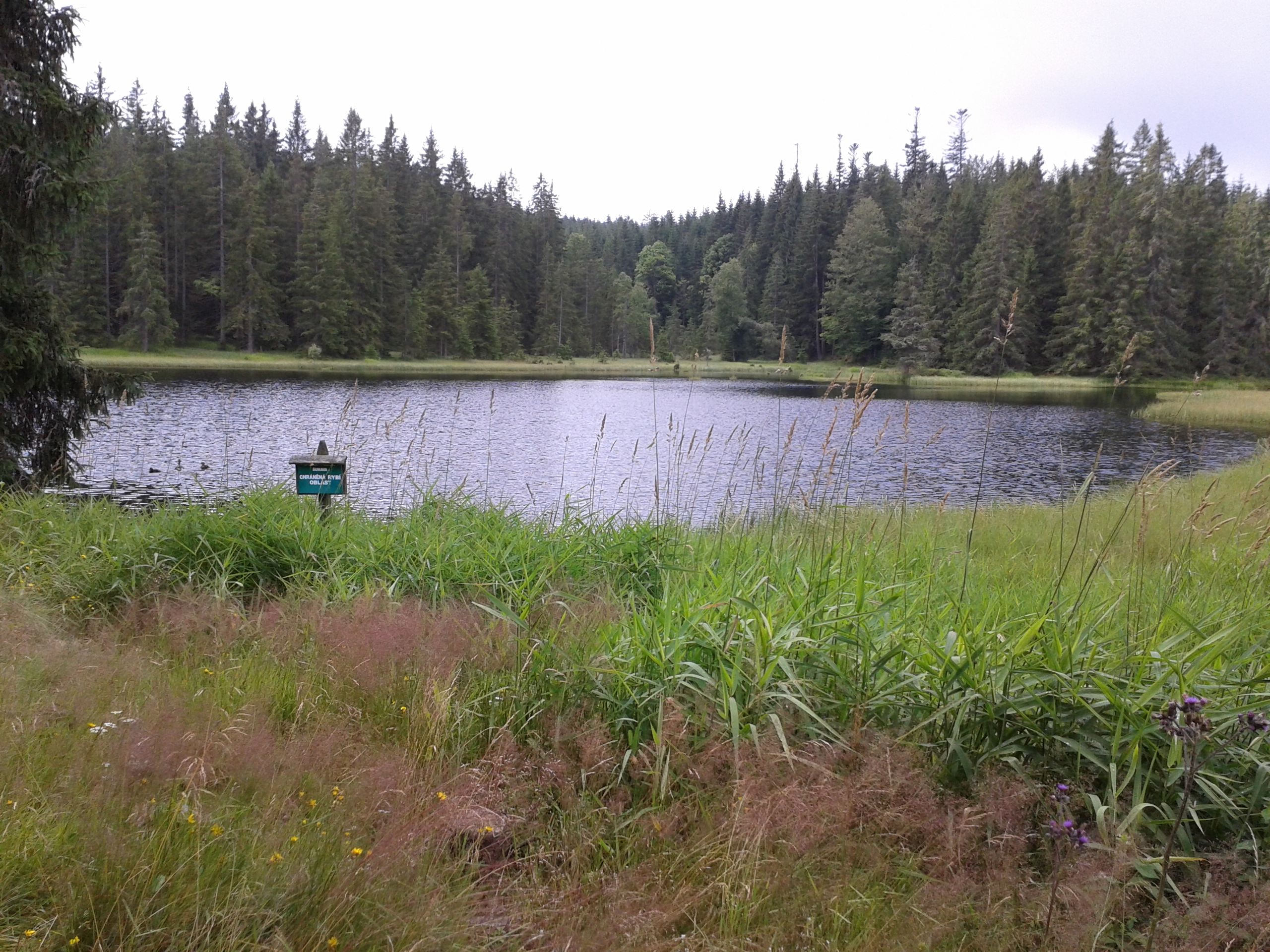 Water reservoir (Splash dam) Polecká is a tank that served to improve the situation during floating firewood from the surrounding forests. The tank is located near the former village Polka in Šumava (Czech Republic) at an altitude of about 950 meters above the sea level. Water reservoir was created on the upper reaches of the Polecký creek in 1839.